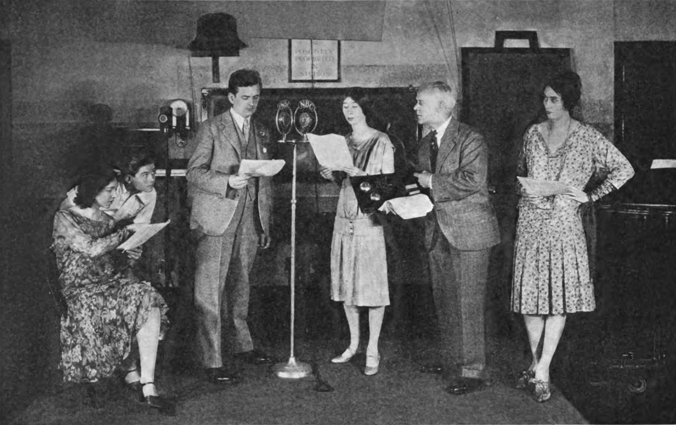 An early live radio play being broadcast at NBC Studios, New York. The rise of AM radio broadcasting, the first electronic mass entertainment medium, sparked an outpouring of creativity and new types of entertainment were invented for the new medium: mystery serials, radio plays, soap operas, variety shows, and children's hours. Since recording technology was primitive and expensive, most programs were broadcast live. The lefthand man was the sound effects man or "Foley artist". He holds an effects board with some of the mechanisms with which he creates the sounds of walking feet, ringing telephones, closing doors and gunshots to increase the realism of the play. Caption: "Broadcasting from a central studio" Alterations to image: Partially removed aliasing artifacts (crosshatched lines) introduced during the scanning of the original halftone photo, using Gimp FFT filter